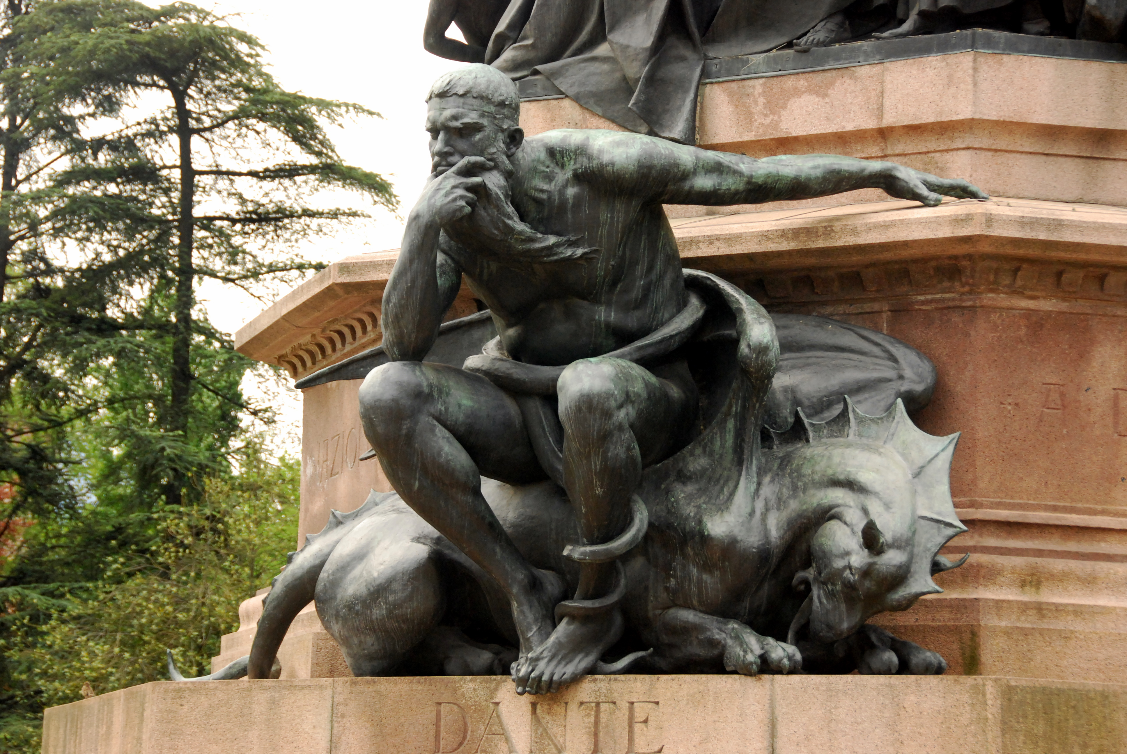 Minos sitting on the dragon. Detail of the Monument to Dante in Trento by Cesare Zocchi.